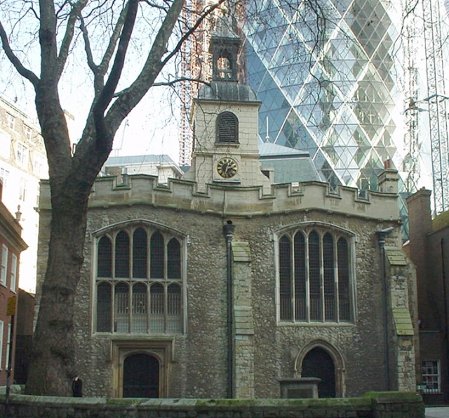 Photo taken by lonpicman